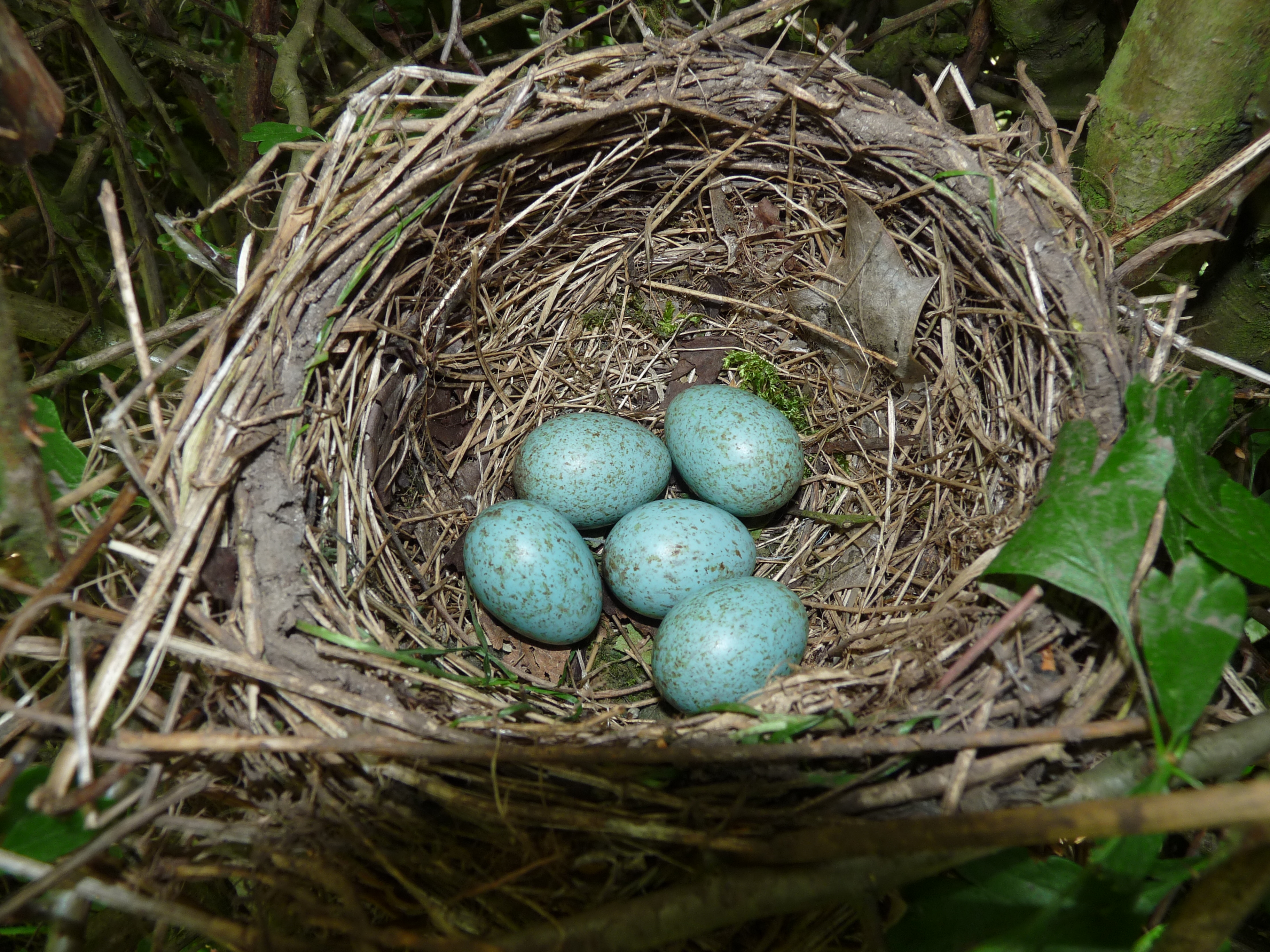 Latin name Turdus merula Family Chats and thrushes (Turdidae) Overview The males live up to their name but, confusingly, females are brown often with... Where to see them ... When to see them All year round. What they eat Insects, worms and berries.